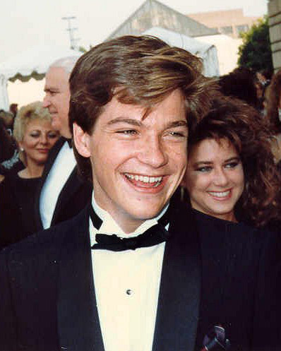 Jason Bateman on the red carpet at the 39th Annual Emmy Awards, September 20, 1987.